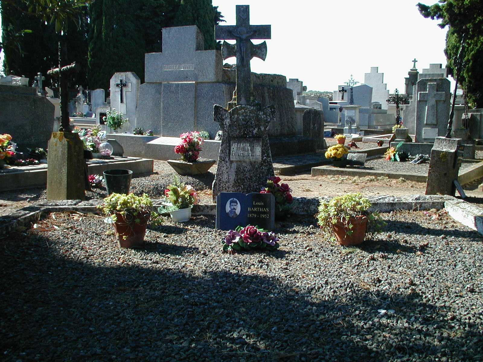 Louis Barthas